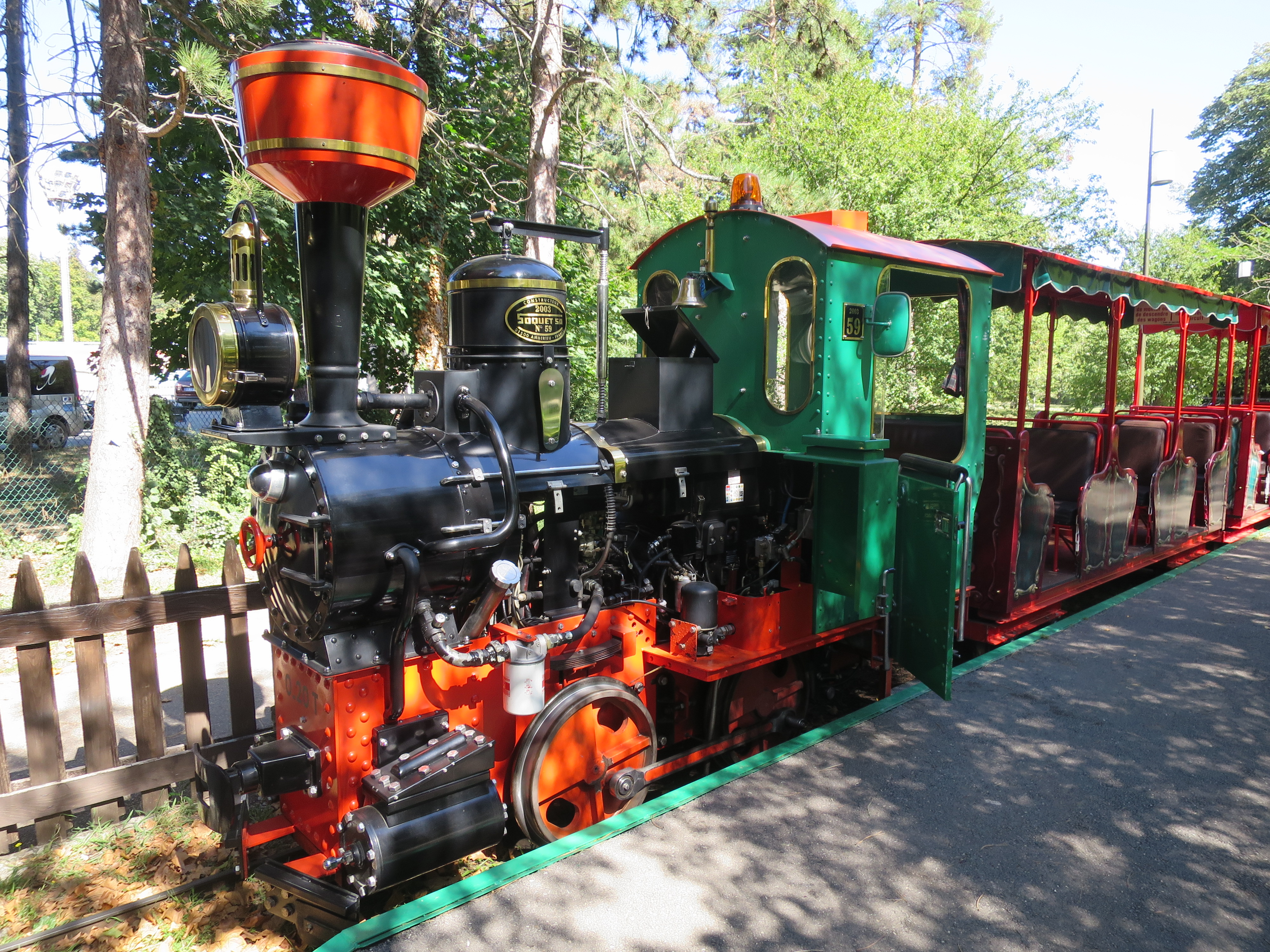 Railway, Parc de la Tête d'Or